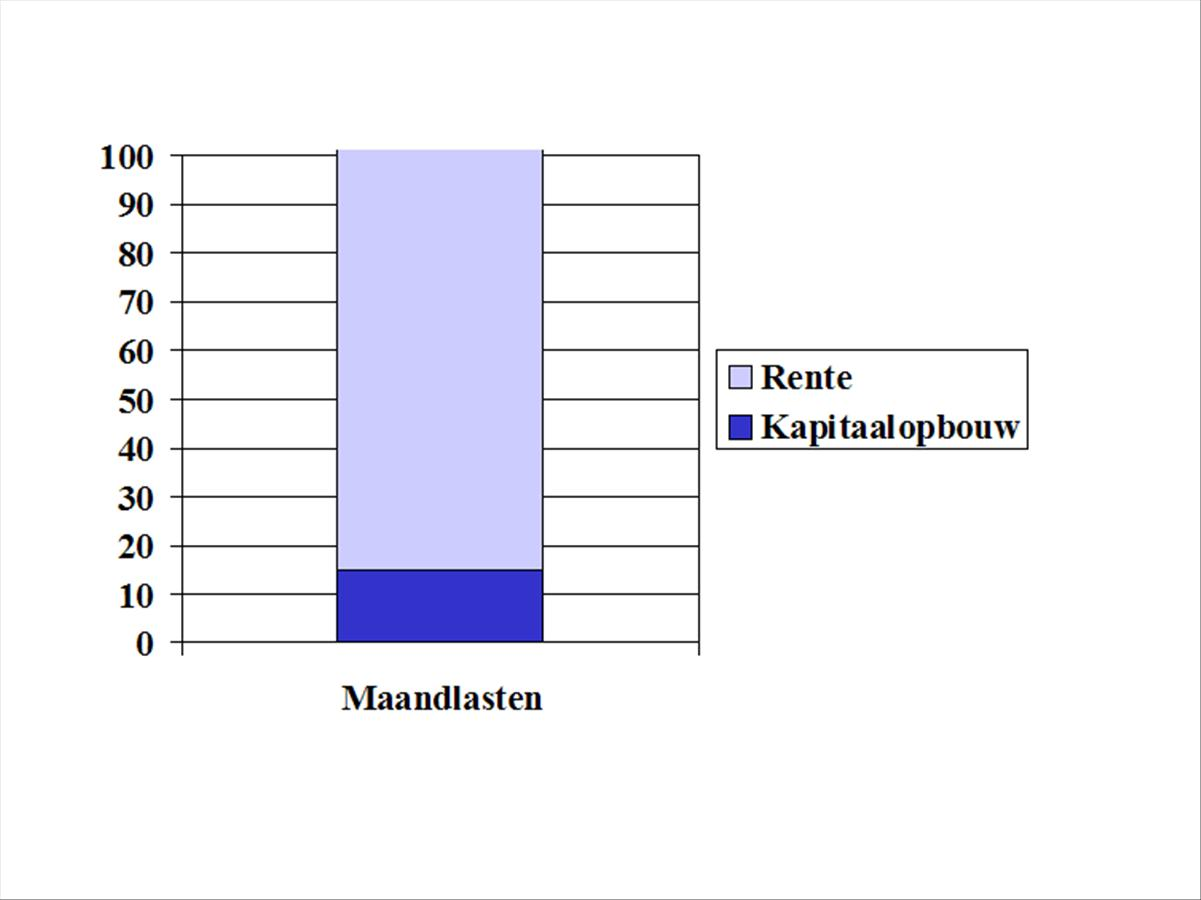 Mortgage in the Netherlands